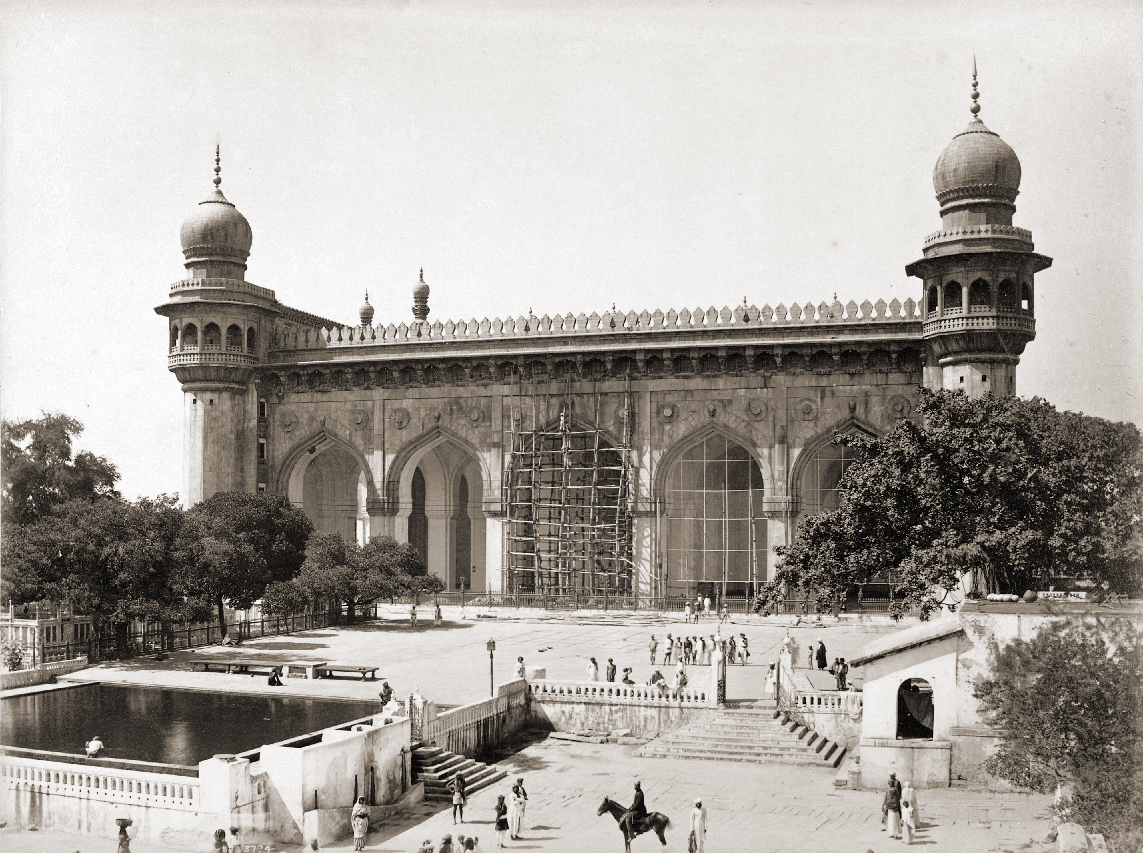 Photograph of the Mecca Masjid in Hyderabad, taken by Deen Dayal in the 1880s, from the Curzon Collection: 'Views of HH the Nizam's Dominions, Hyderabad, Deccan, 1892'. The Mecca Masjid at Hyderabad is one of the largest mosques in the south of India; it can accommodate 10,000 worshippers at prayers. Construction began under Muhammad Qutb Shah in 1614 however it was not completed until 1693 by Aurangzeb. It was constructed from huge granite boulders that were hewn locally. Small red bricks believed to have come from Mecca are positioned above the central arch. The mosque contains the tombs of the Nizams of the Asaf Jahi dynasty from 1803 onwards. This is a view of the main facade with its five arched entrances. The prayer hall contains five aisles, three bays deep. The cicular corner minars, with octagonal balconies, are small in height; they were never carried above parapet level. The capping domes were added later by the Mughals.